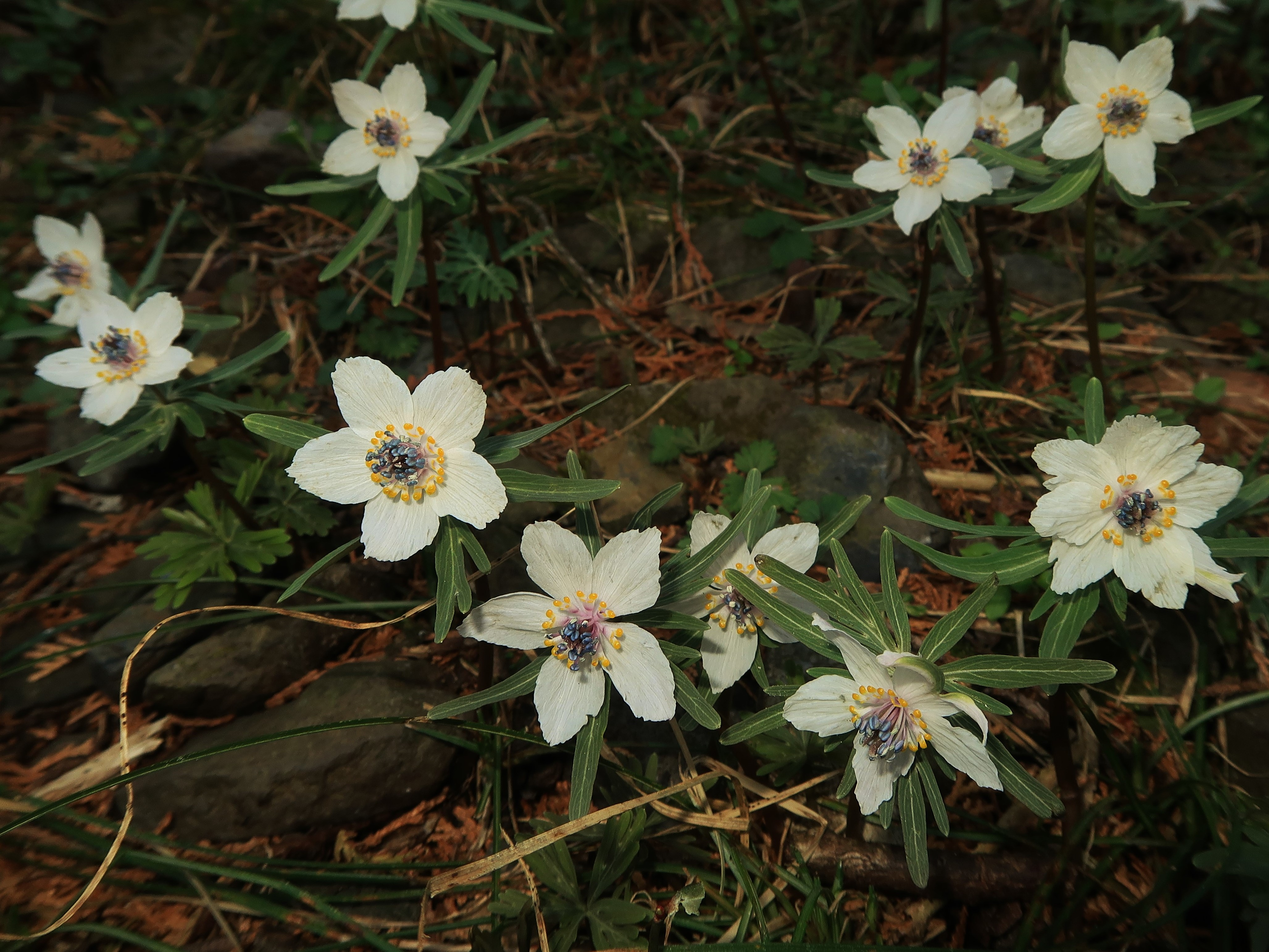 Eranthis pinnatifida, South area, Tochigi pref., Japan